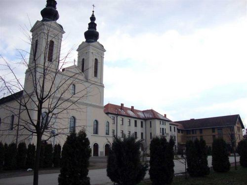 Franciscan monastery and church,Tolisa